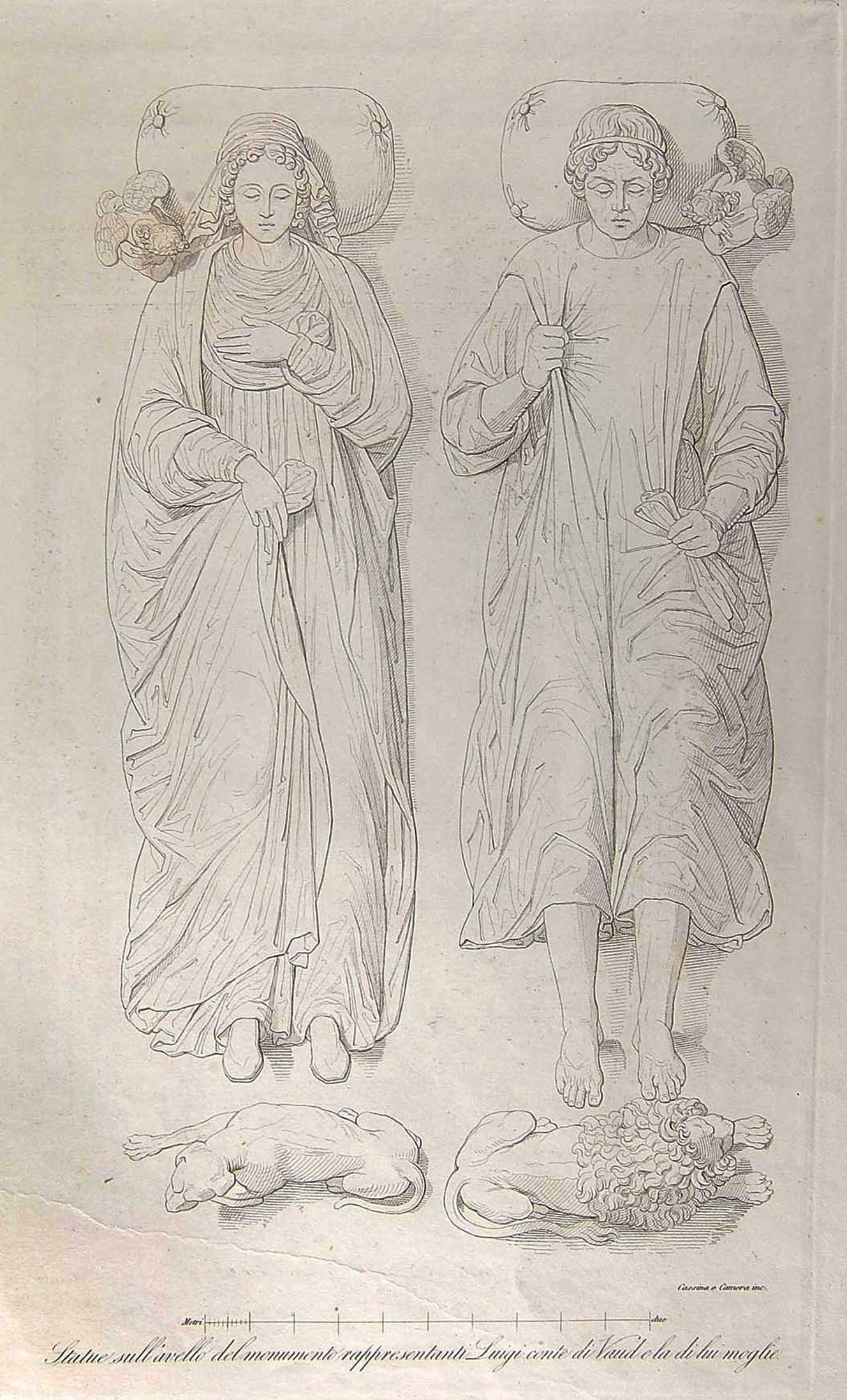 Louis of Savoy-Vaud (I or II?) and his wife